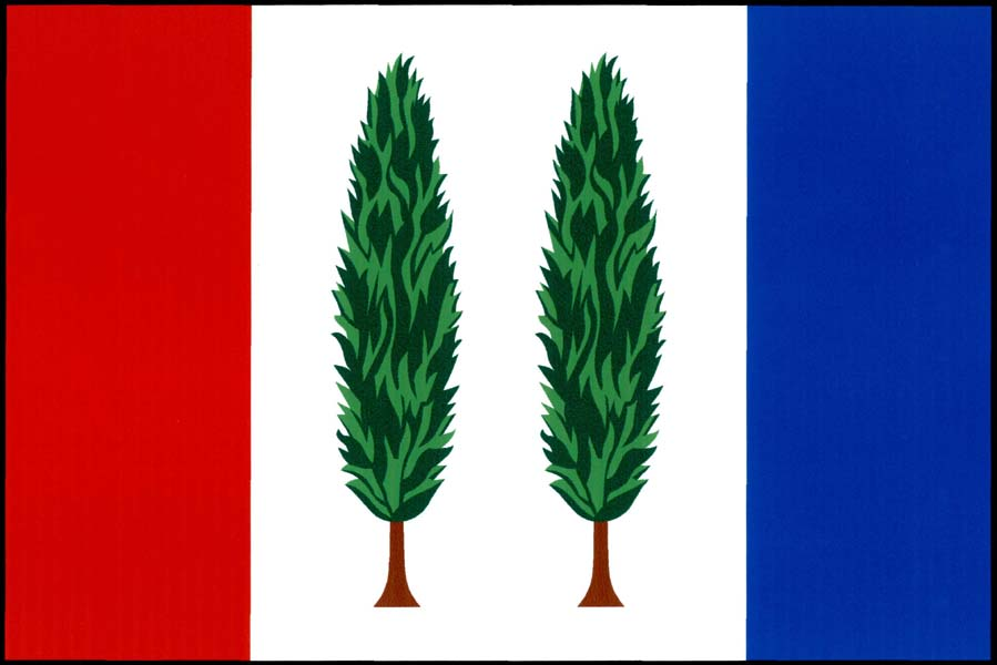 Municipal flag of Dobšice , District Nymburk, Czech Republic